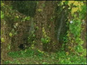 A crime scene photo admitted into evidence shows the wooded area where Caylee Anthony's body was found.